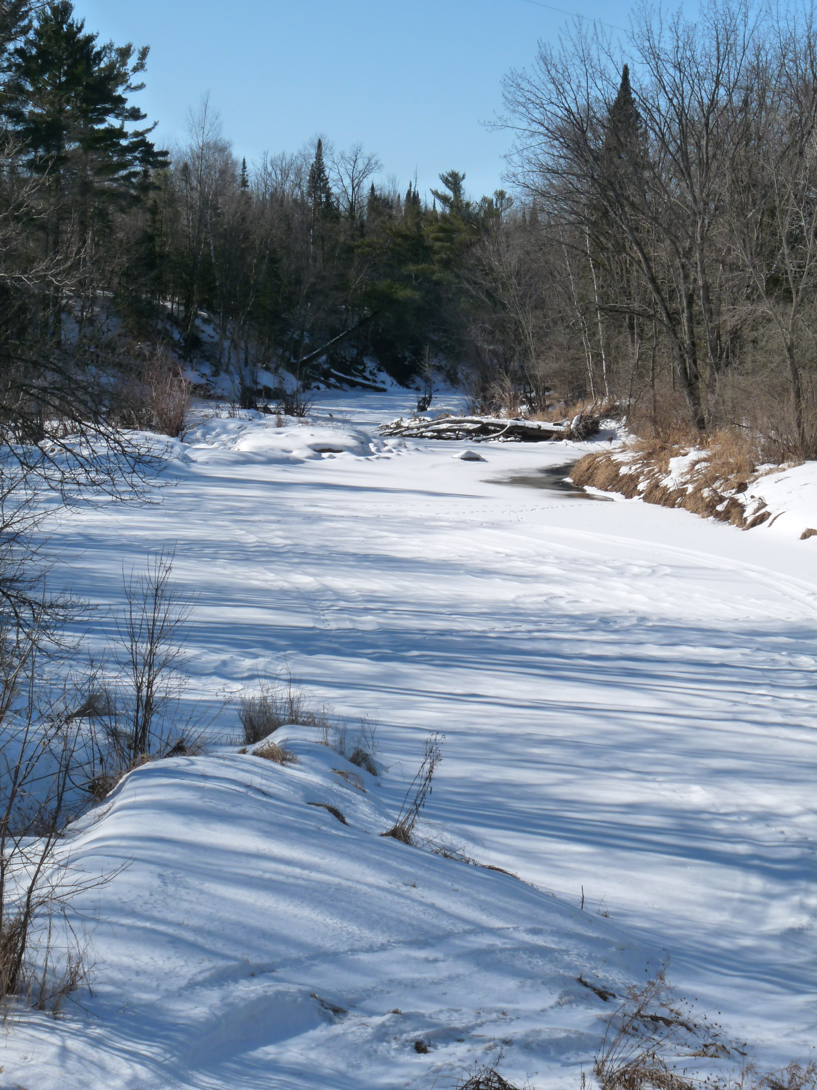 The Black River in central Wisconsin freezes over in winter, and snomobilers ride on the ice.